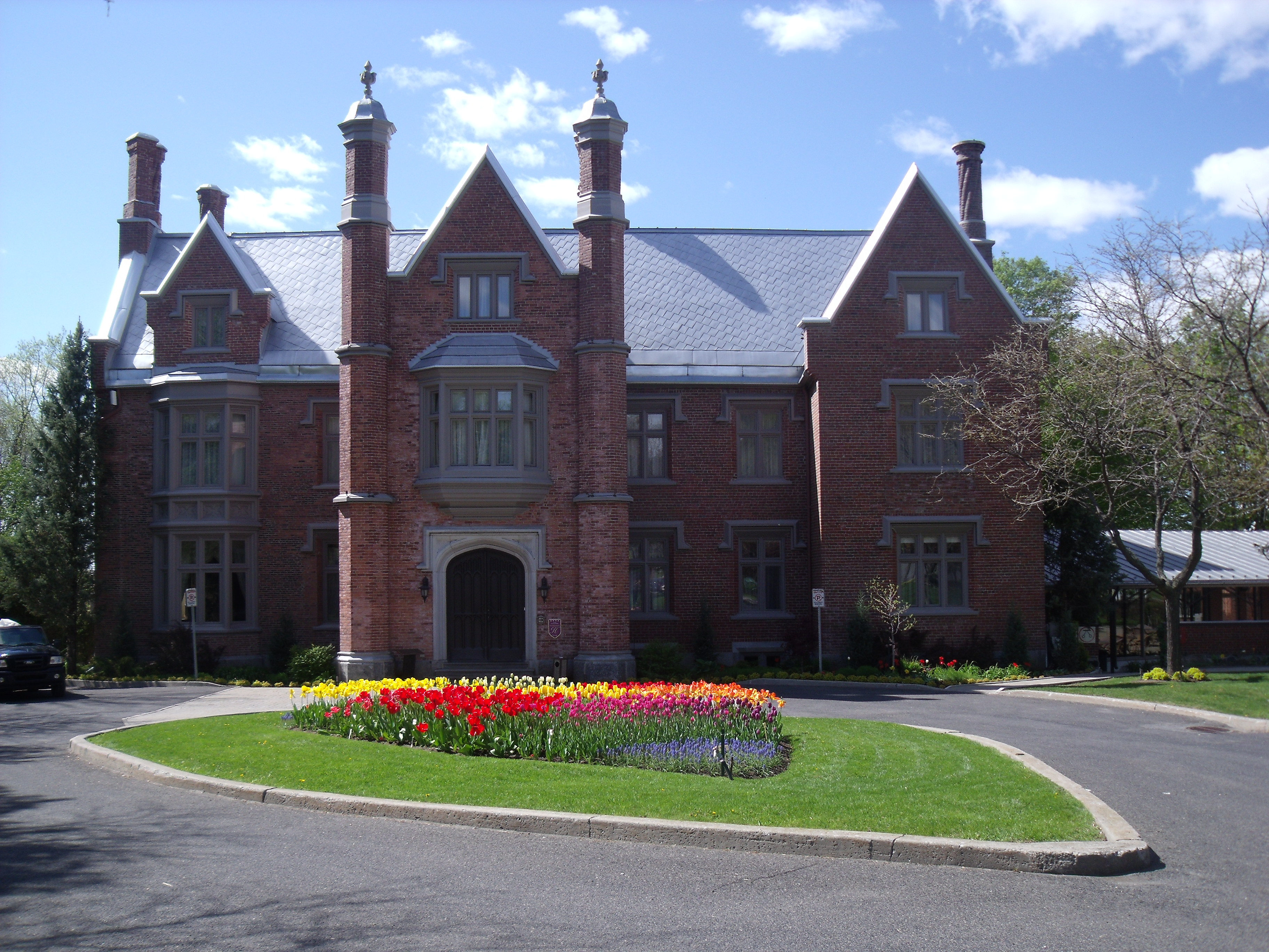 Front facade of the Rouville-Campbell Manor with its Tudor architectural style.